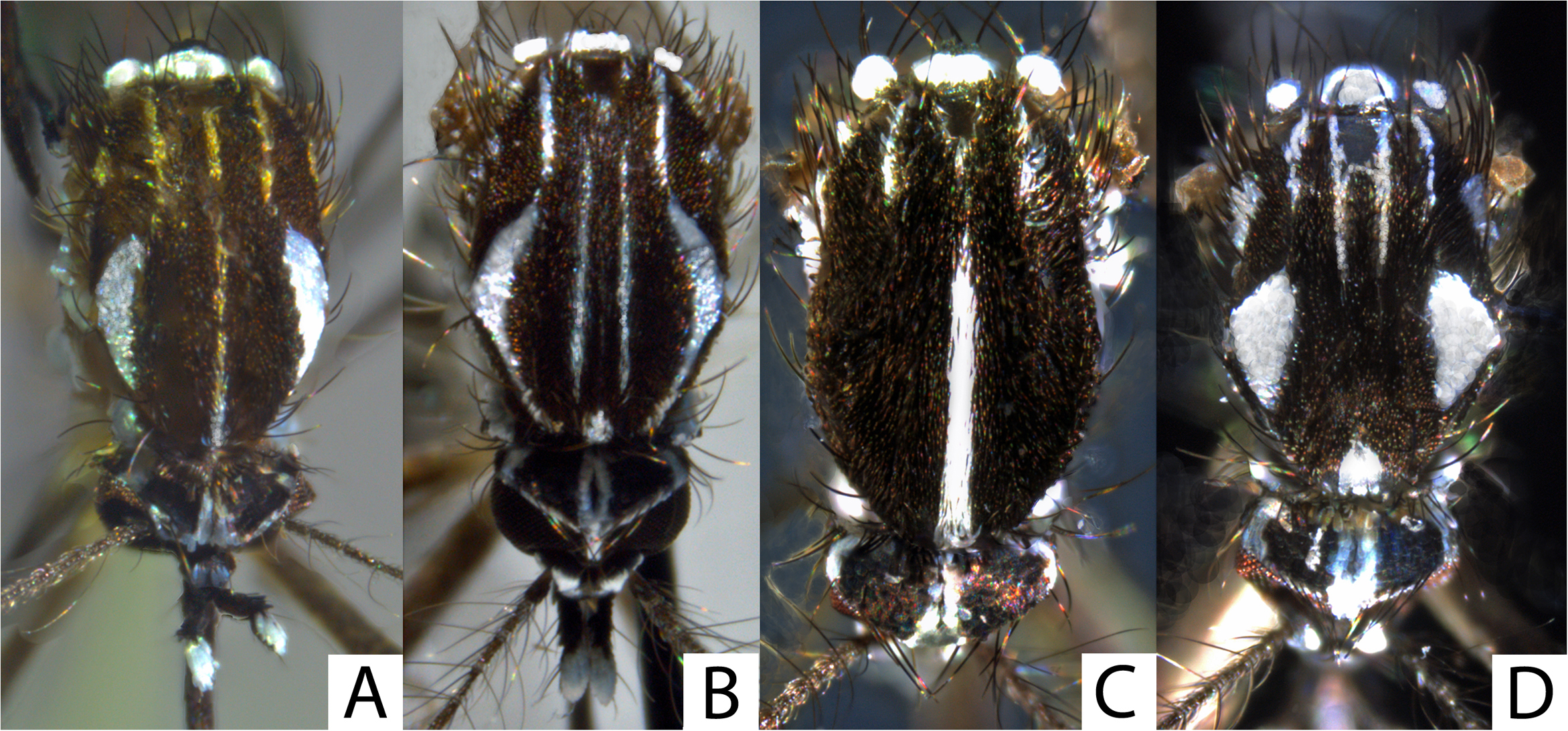 Microphotographs of the scutal ornamentation of the four species of Stegomyia present on Mayotte (dorsal views of females). A: Stegomyia pia n. sp. (specimen MY 628) B: Stegomyia aegypti formosa (specimen MY 007) C: Stegomyia albopicta D: Stegomyia bromeliae